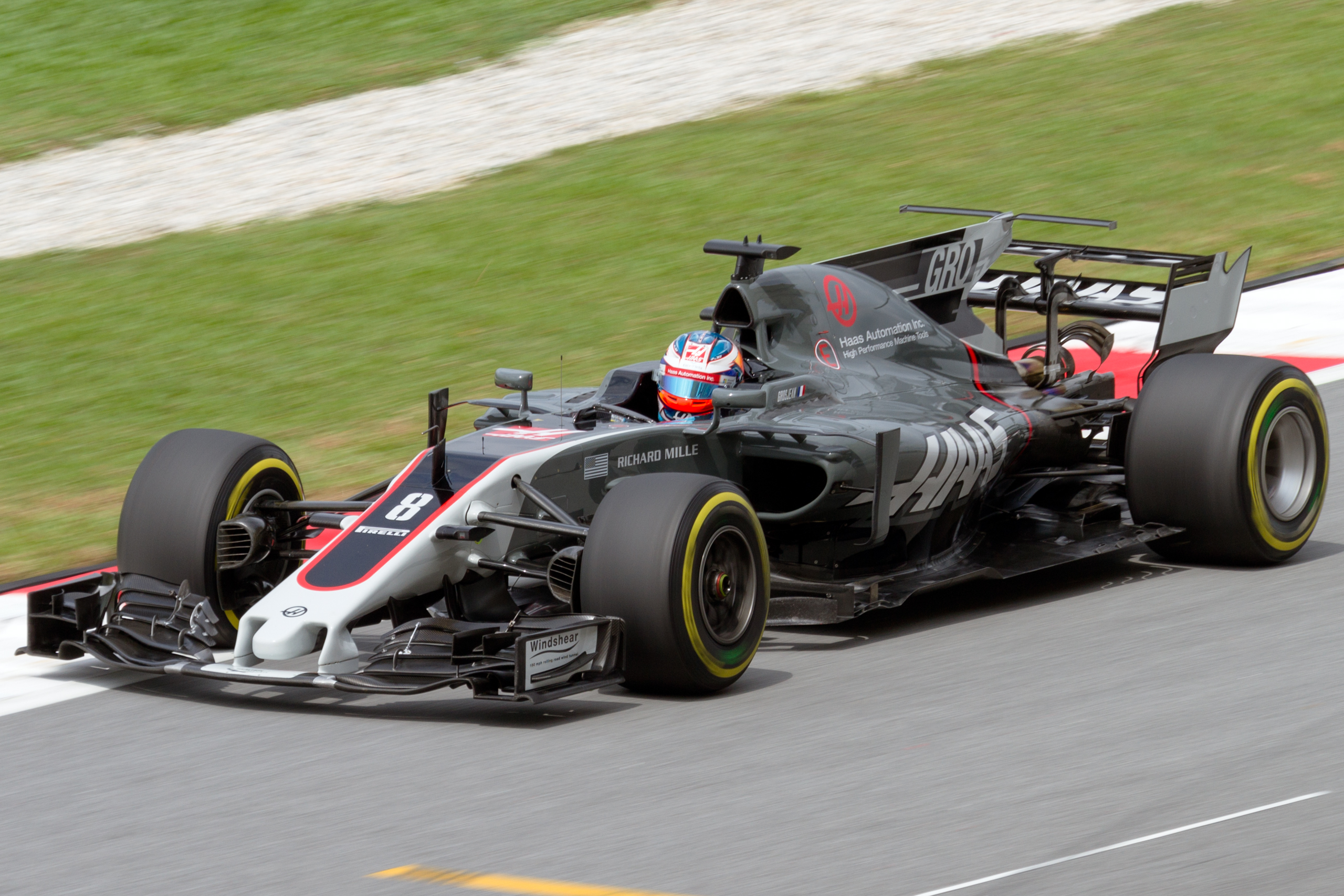 Formula One 2017 Rd.15 Malaysian GP: Romain Grosjean (Haas F1 Team)